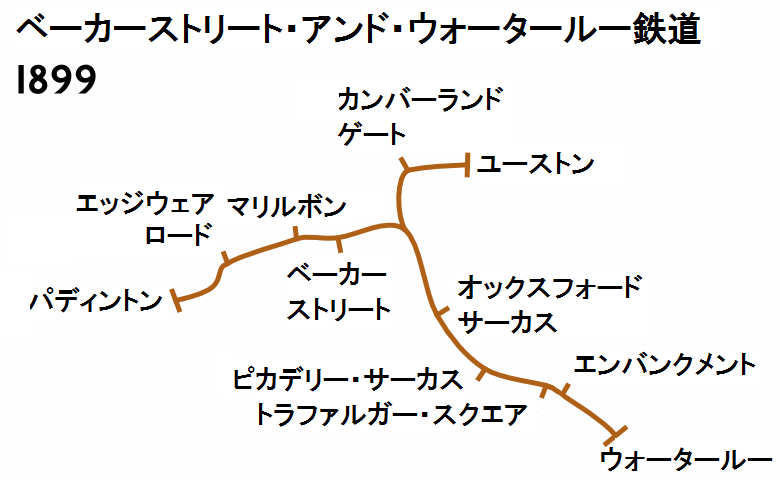 Geographic Map of the Baker Street & Waterloo Railway, 1899.